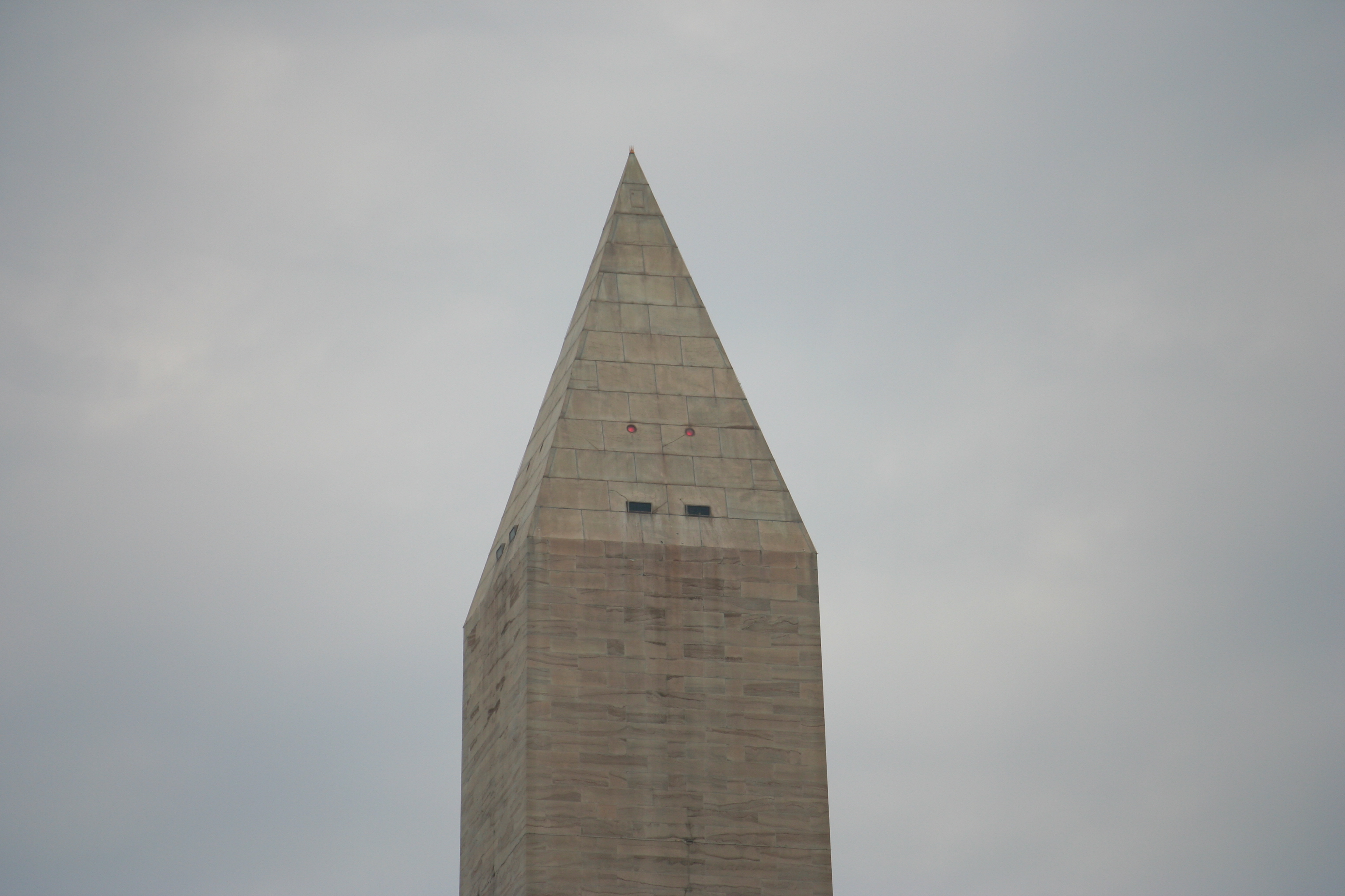 The top of the Washington Monument.